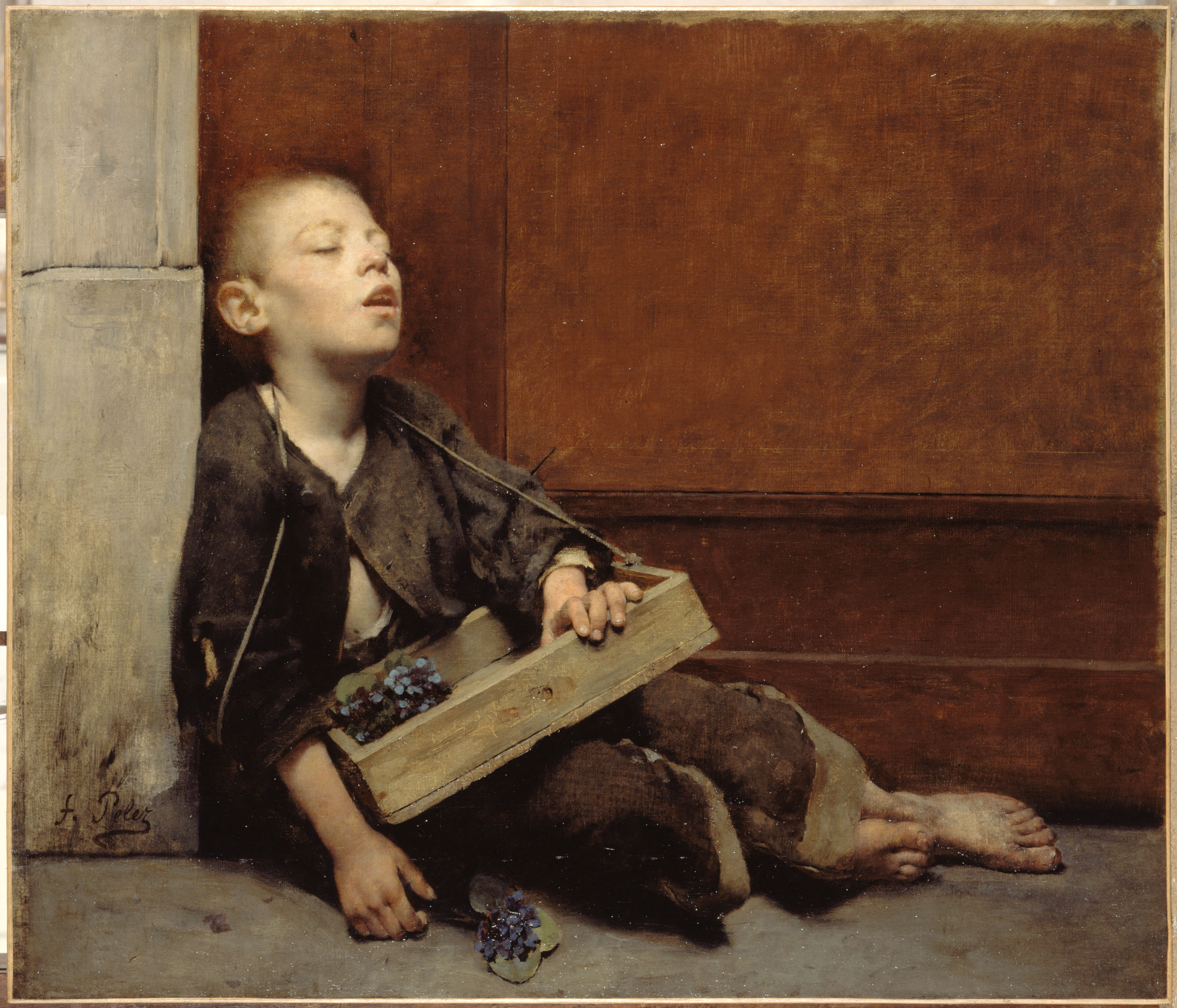 A Martyr or The Violette Merchant